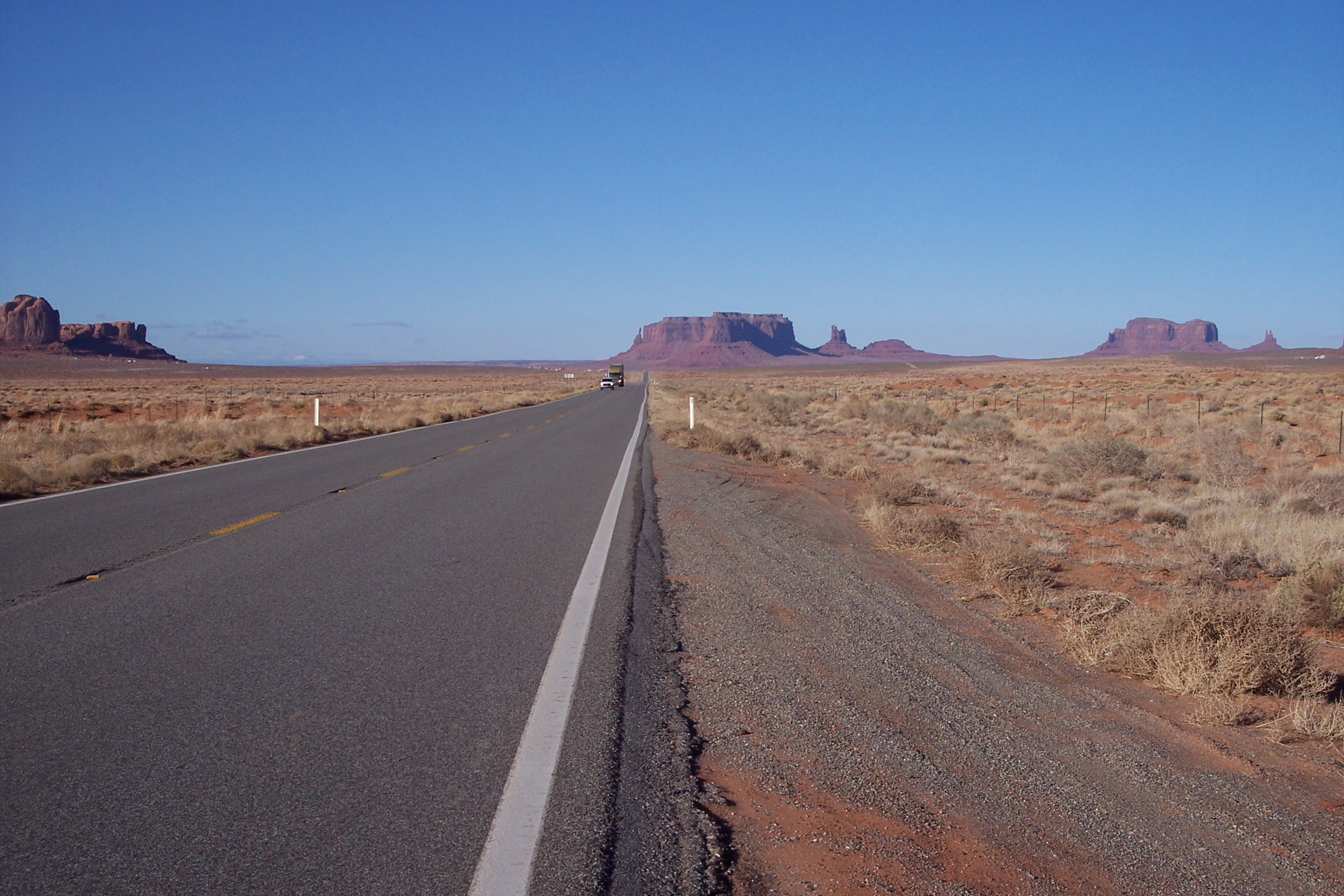 U.S. Route 163 seen towards northeast.